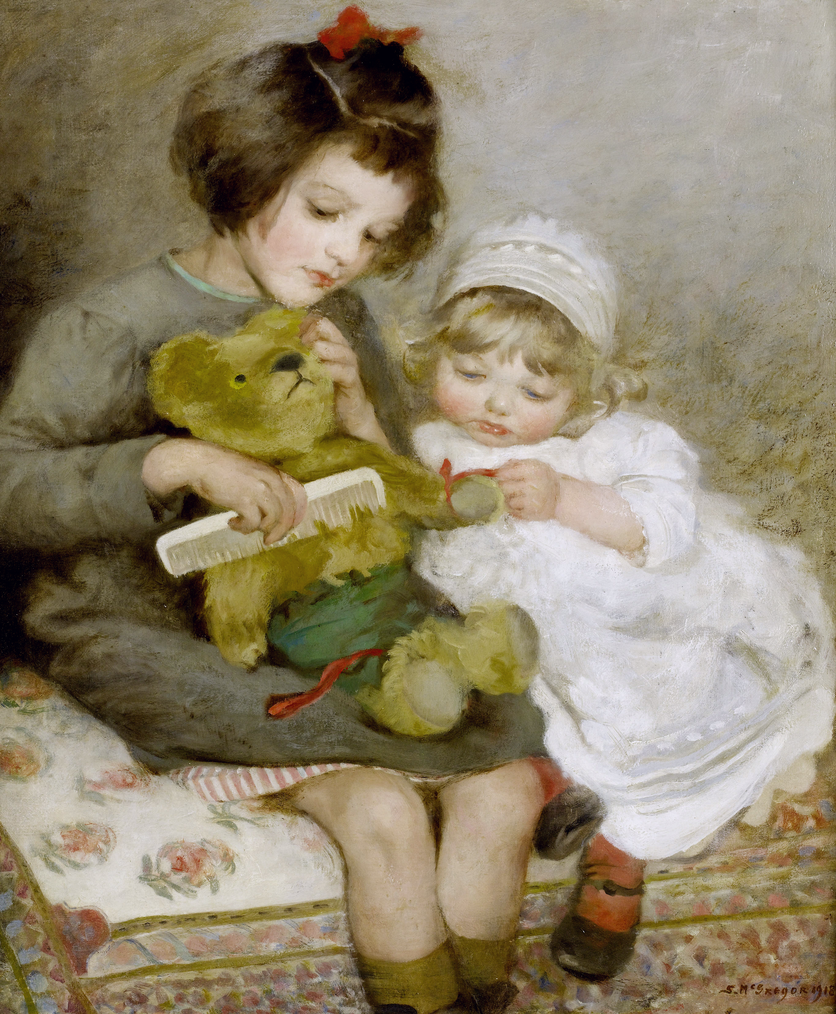 Combing Teddy. Signed and dated S.McGregor 1918. Oil on canvas, 76 x 63.5 cm